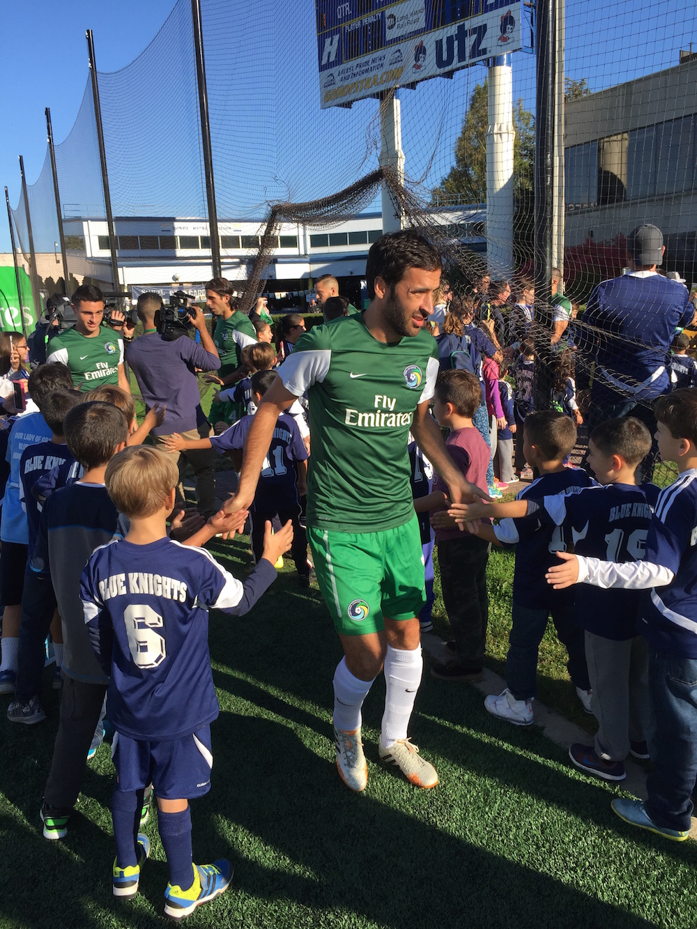 Raúl walks onto the pitch for a New York Cosmos home match in 2015.